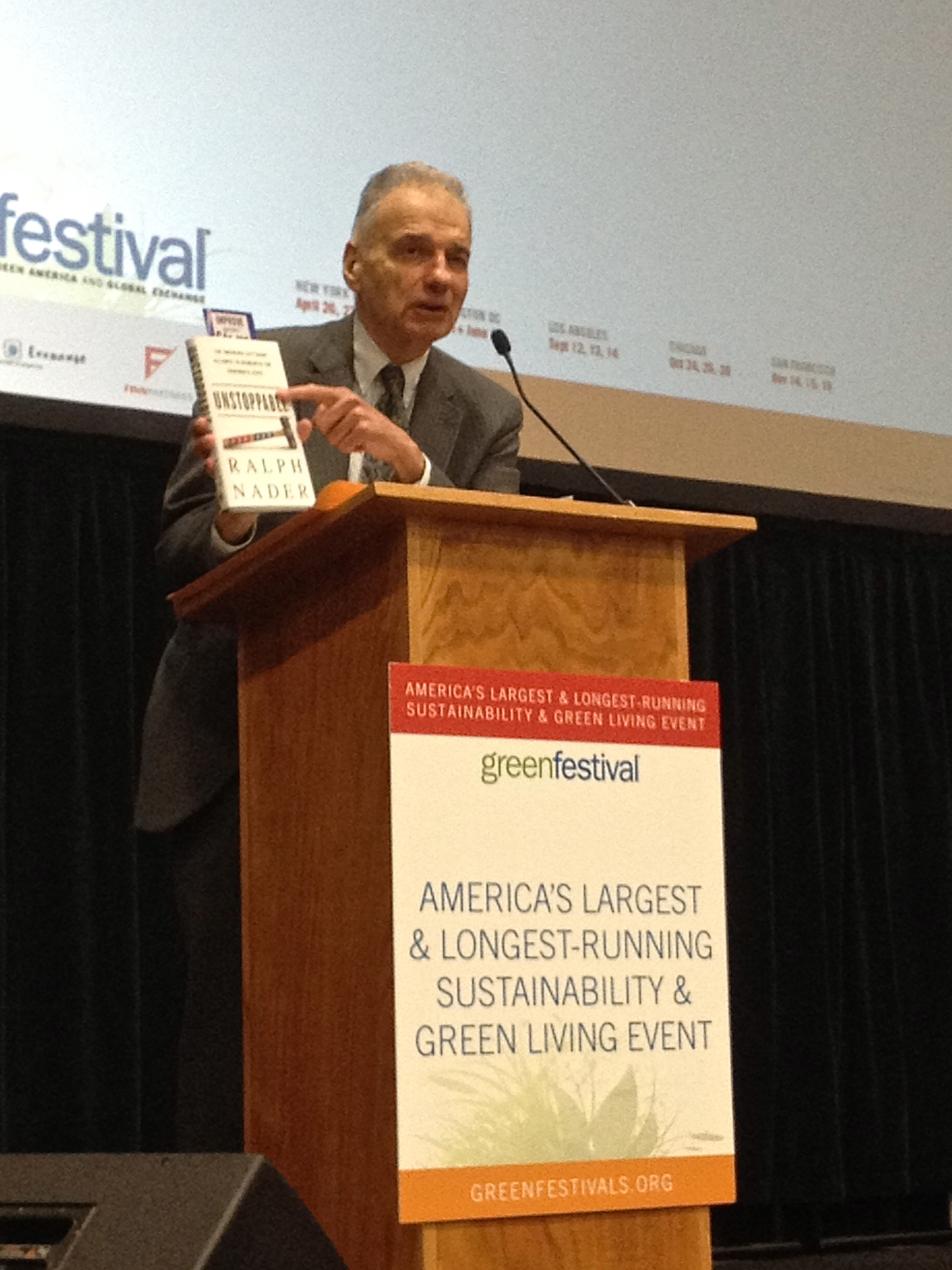 Ralph Nader at the Green Festival Washington DC 2014, June 1, 2014, with his book Unstoppable: The Emerging Left-Right Alliance to Dismantle the Corporate State.